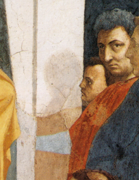 Raising of the Son of Teophilus and St. Peter Enthroned 22.jpg